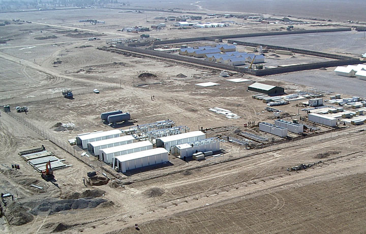 Construction of ANA base in Herat